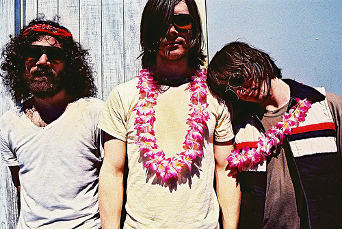 Modey Lemon SXSW Austin, Texas 2008